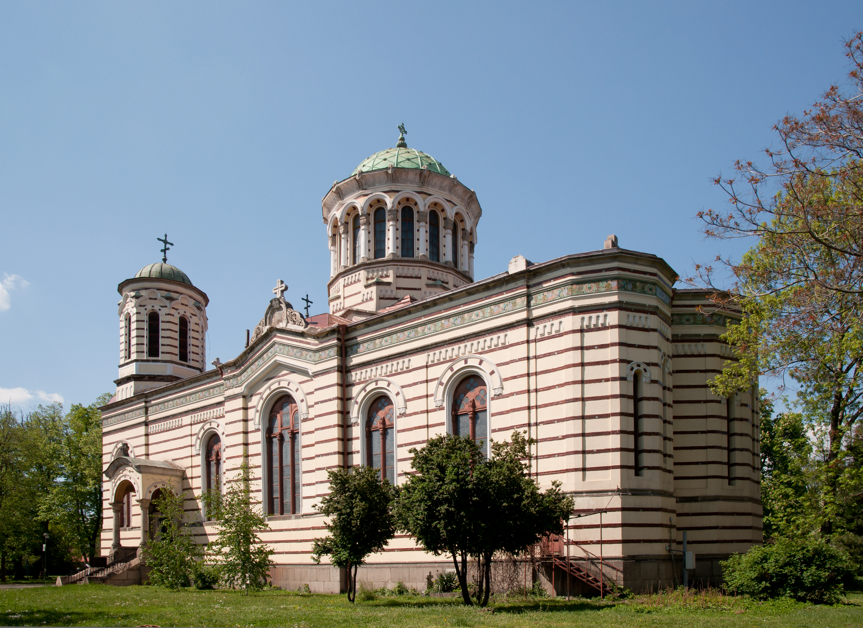 St. Nikolay Sofiyski church in Sofia, Bulgaria. Designed by the Bulgarian architect Anton Tornyov, consecrated in 1900 by Parteniy metropoliten of Sofia.